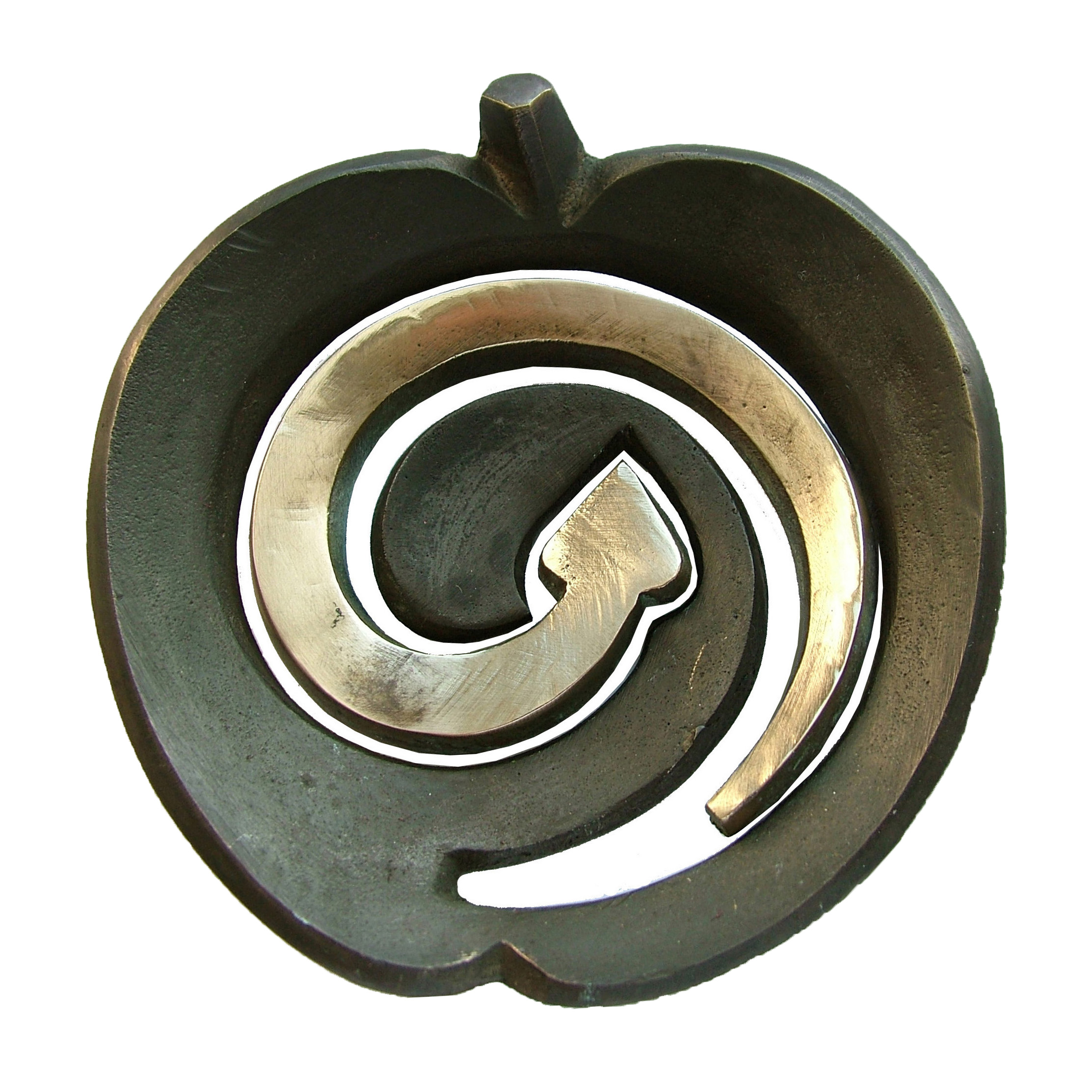 TEMPTING FRUIT 2008, brass, 110 mm